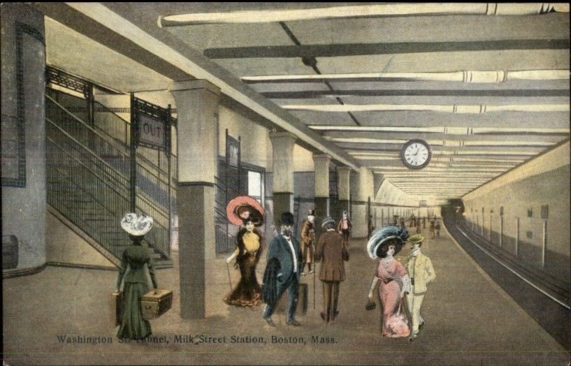 Early divided back postcard of Milk Street station